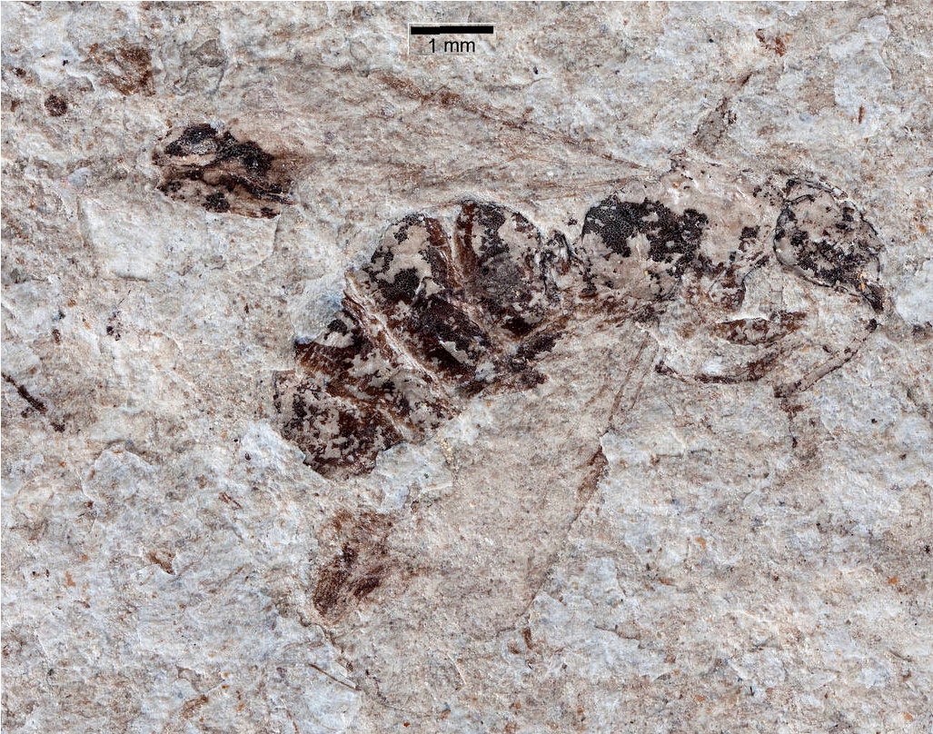 View of an Formica cockerelli paratype male. Chadronian, Late Eocene; Florissant Formation, Florissant, Colorado, U.S.A. University of Colorado Natural History Museum, Boulder, Colorado, U.S.A.; specimen UCM17013